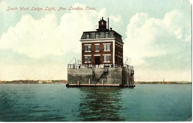 Postcard: New London Ledge Light, off of New London